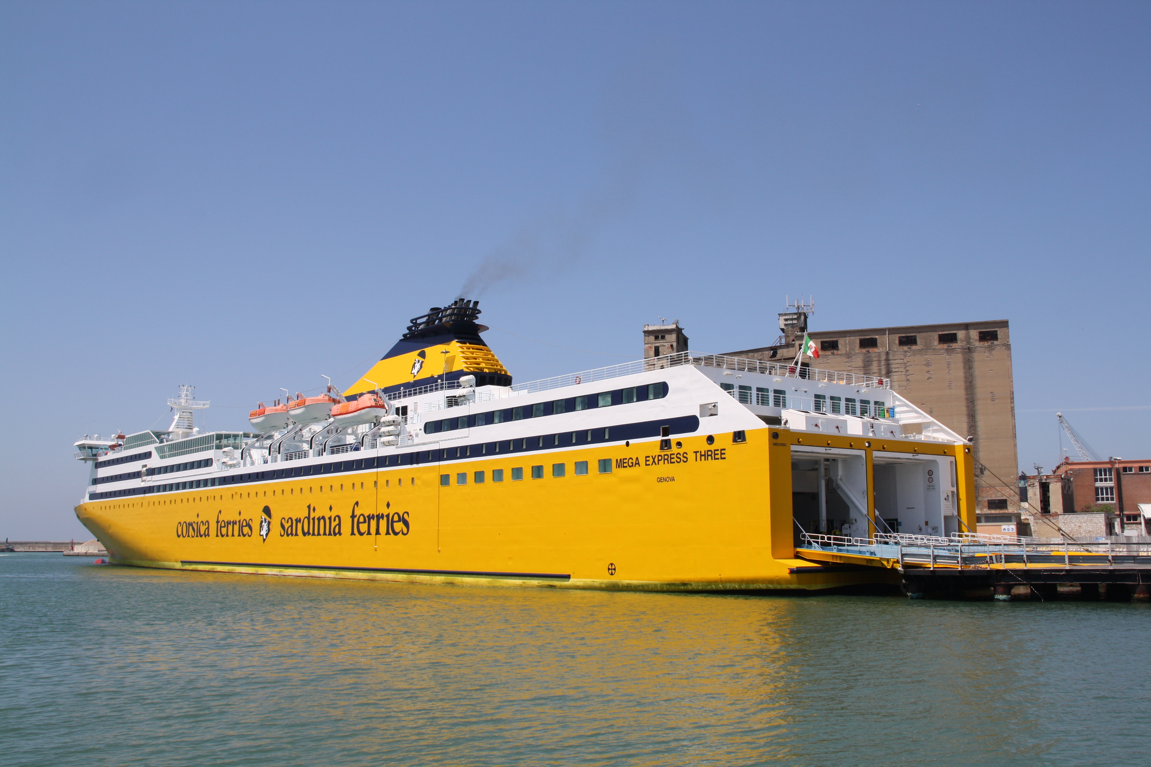 Italy, Port of Livorno. The Corsica Ferries passenger roll-on/roll-off ship MS Mega Express Three berthed at "Sgarallino" wharf of Porto Mediceo.